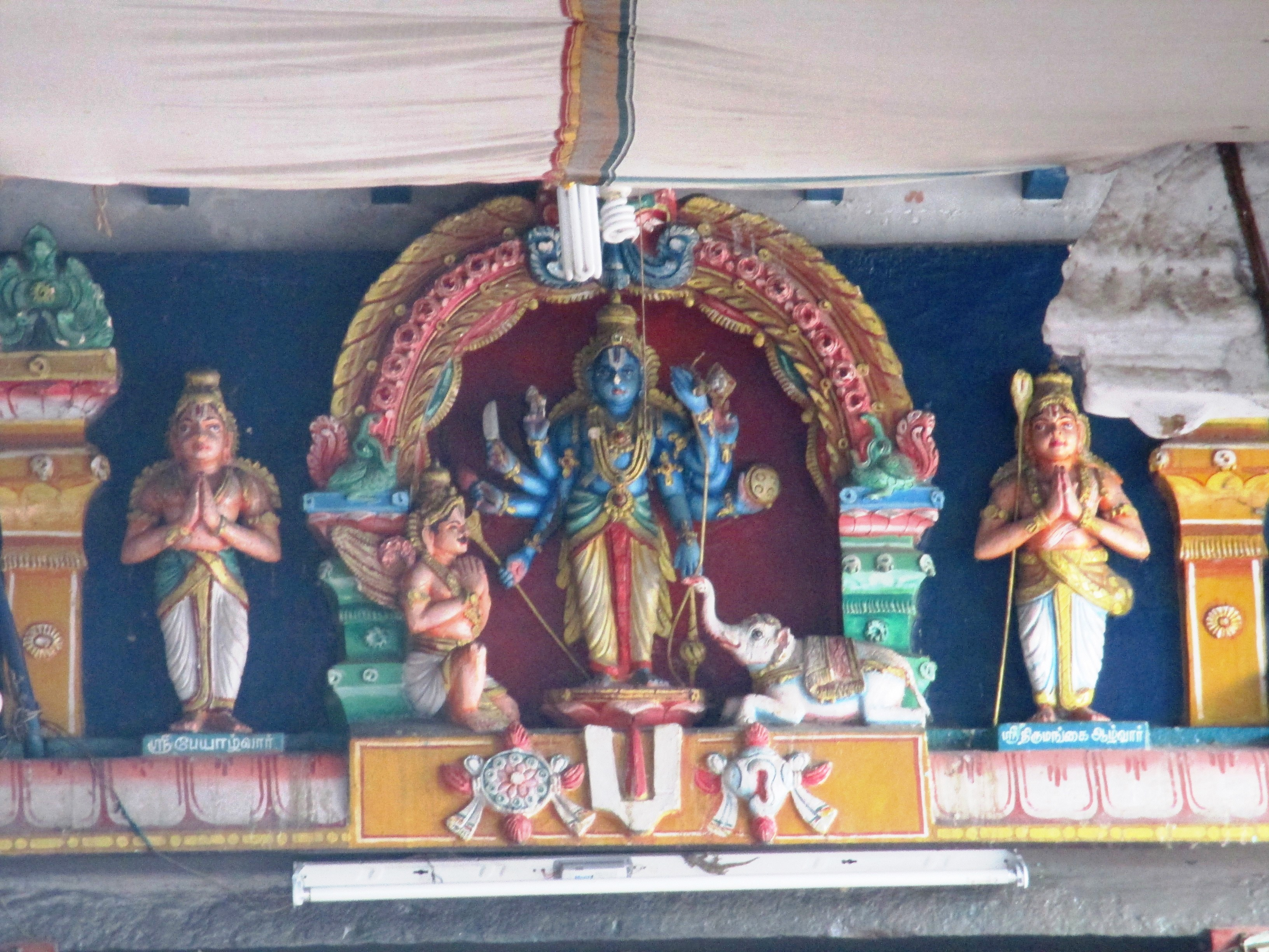 Ashtabujakaram